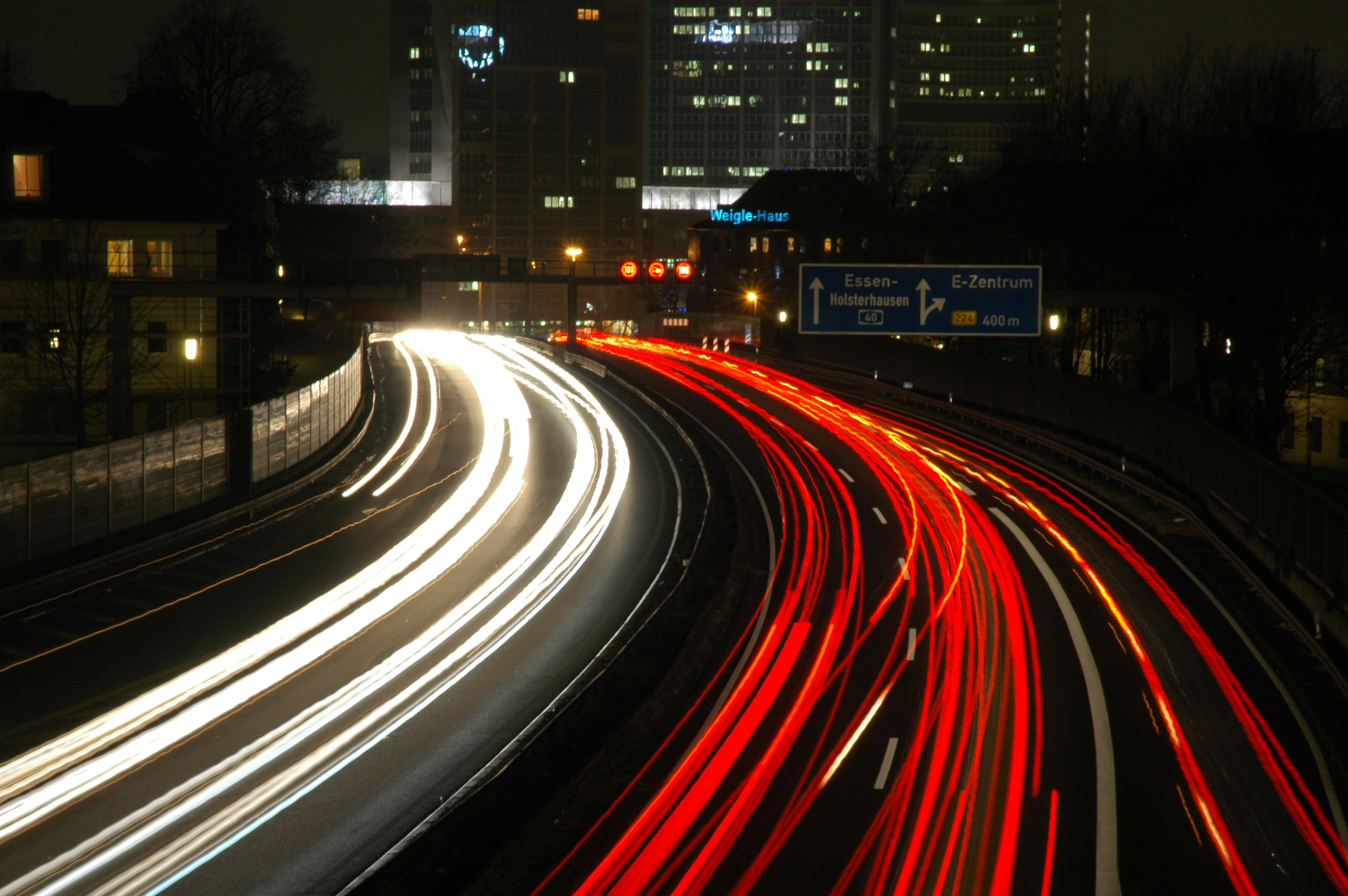 Rush Hour on the BAB 40 in Essen, Germany